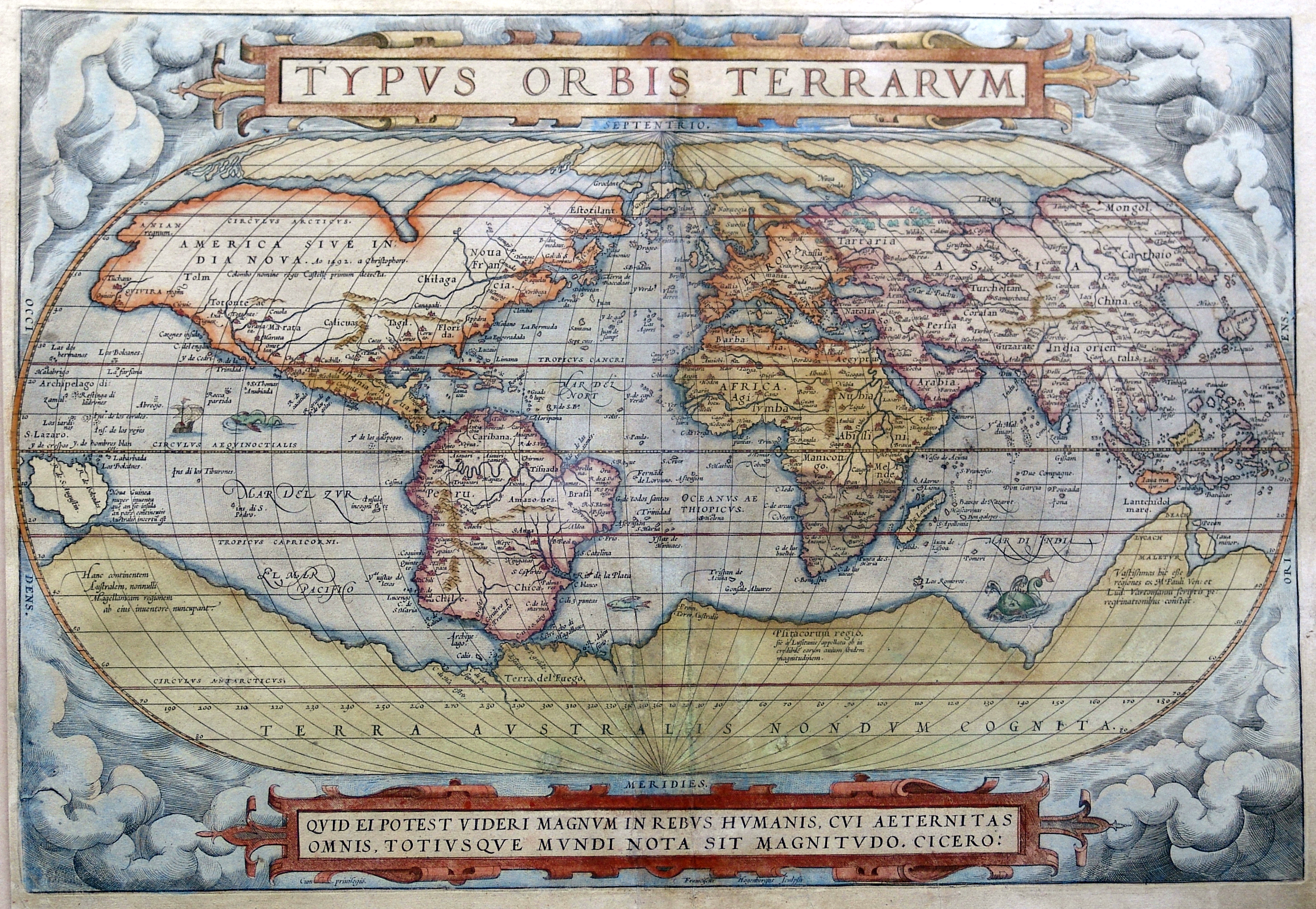 The Typus Orbis Terrarum world map; size: 340 x 494 mm